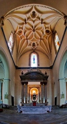 View of the high altar in the Catholic Cathedral of St. Mary the Crowned, Gibraltar